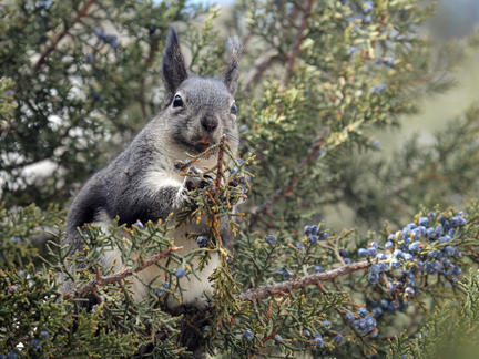 Abert's Squirrel (Sciurus aberti) eating juniper berries (note: this is from the original alt text of the image at the .gov site)